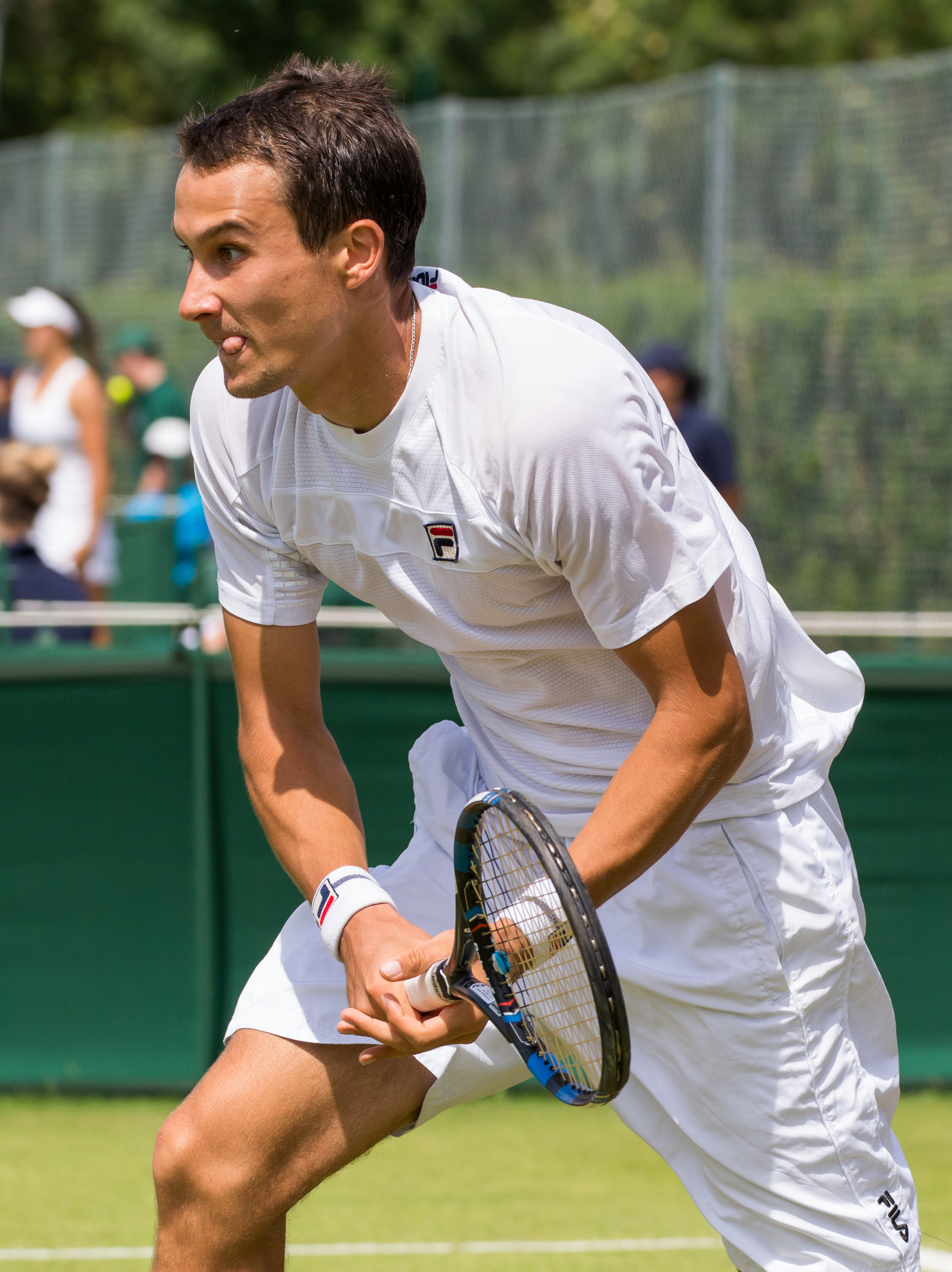 Evgeny Donskoy competing in the second round of the 2015 Wimbledon Qualifying Tournament at the Bank of England Sports Grounds in Roehampton, England. The winners of three rounds of competition qualify for the main draw of Wimbledon the following week.